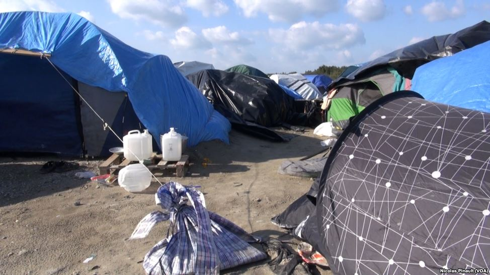 Calais "jungle" migrant/refugee camp in Oct. 2015